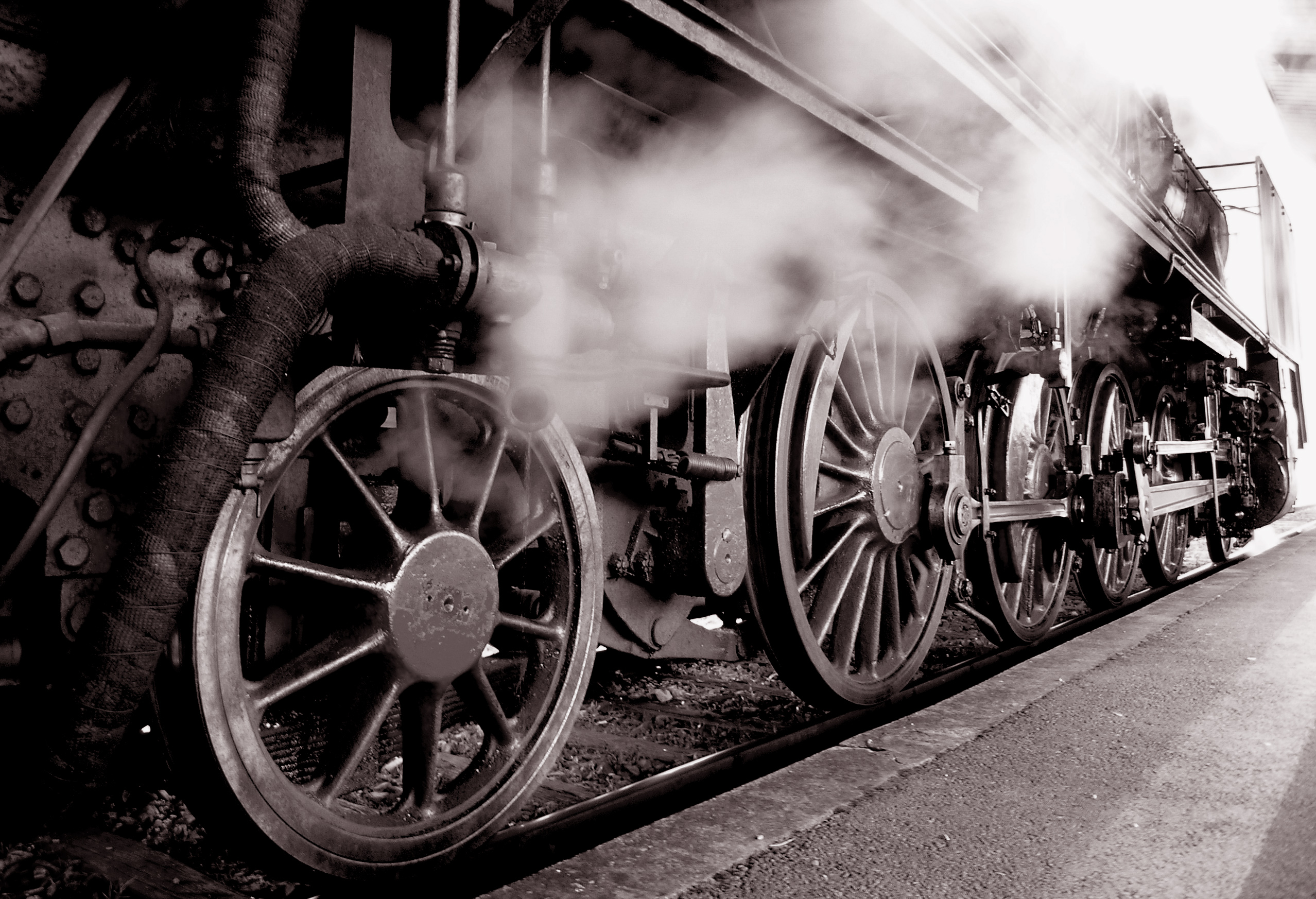 JŽ 06-018 steam locomotive gear, museum steam locomotive, Central station Ljubljana, Slovenia